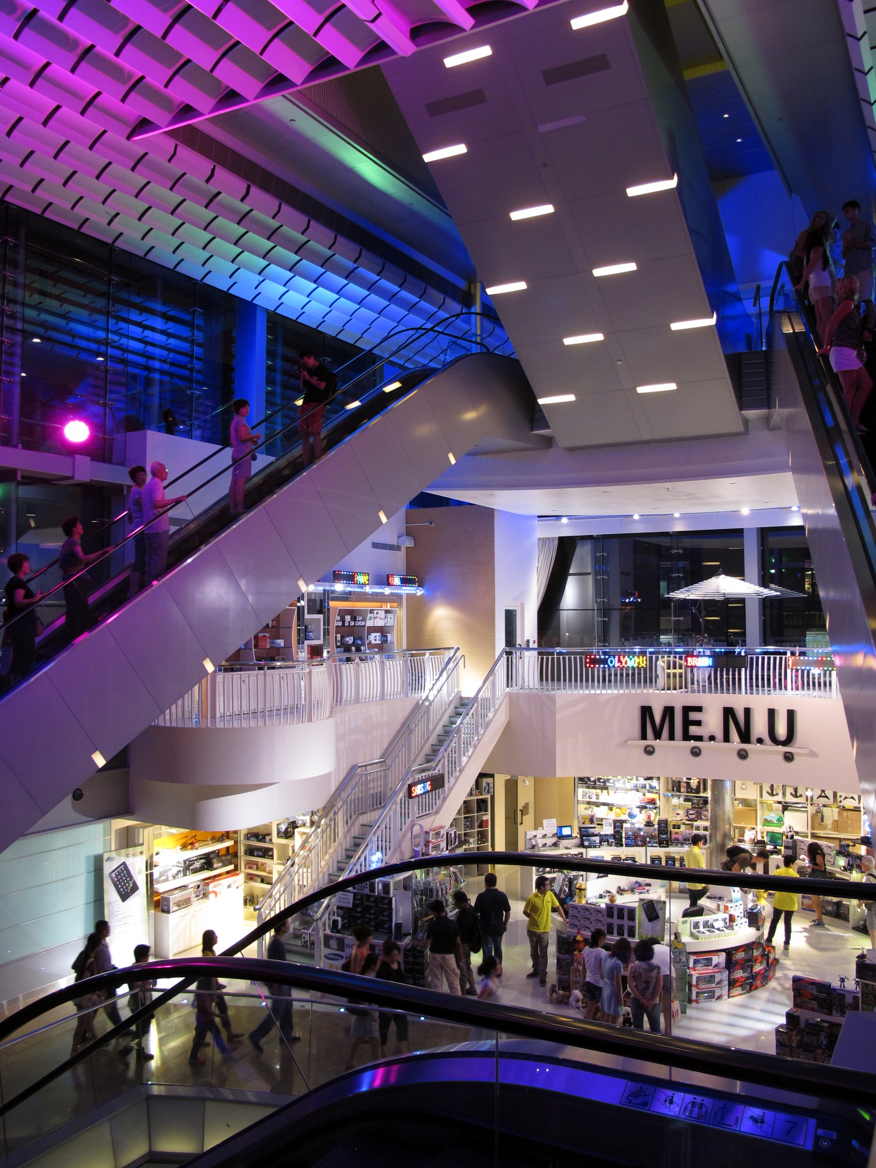 The Peak Tower